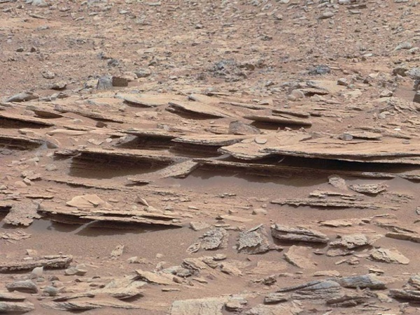 Geologic feature of Yellowknife Bay informally known as Shaler.